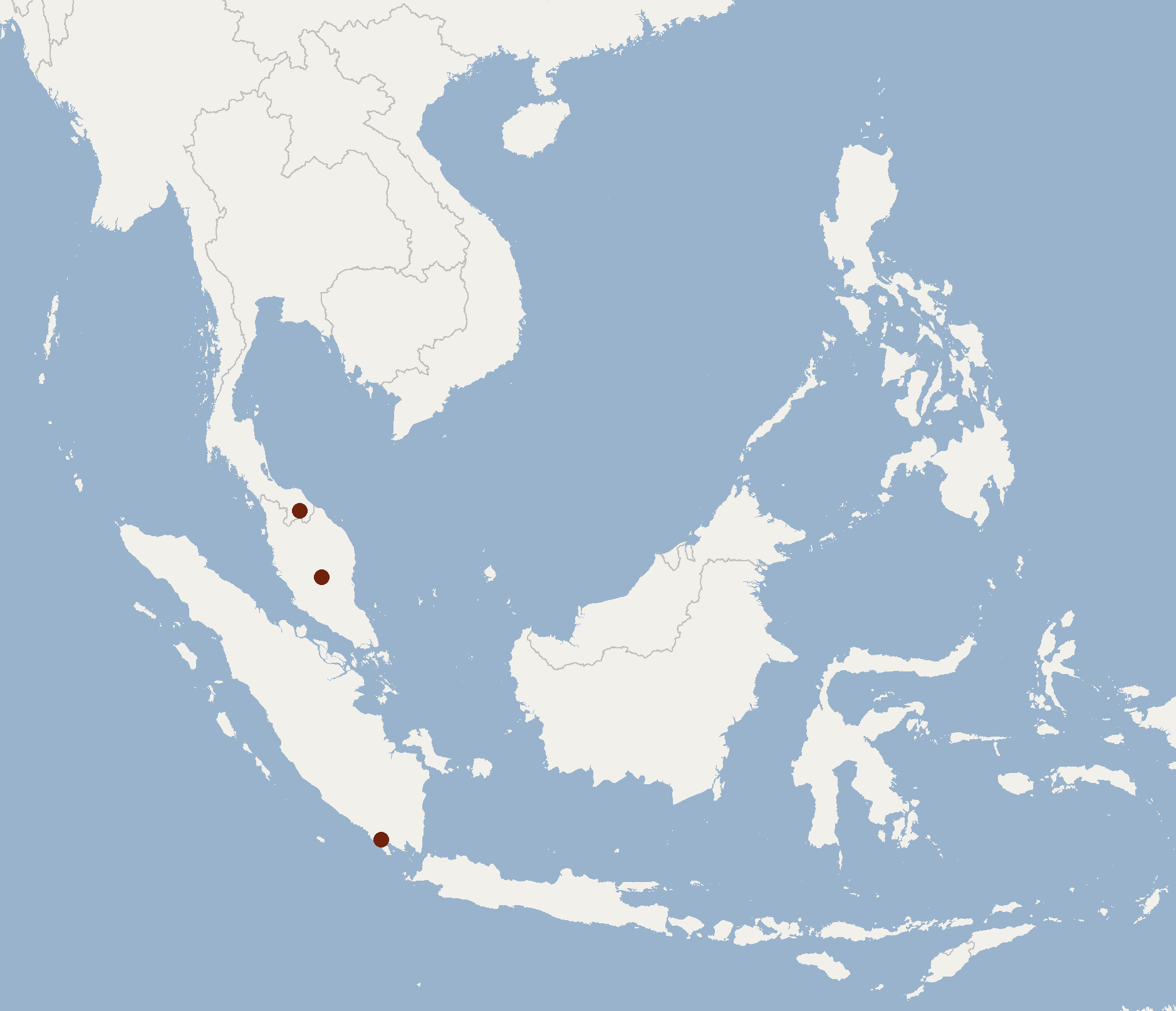 According to Douangboubpha & Al., 2014